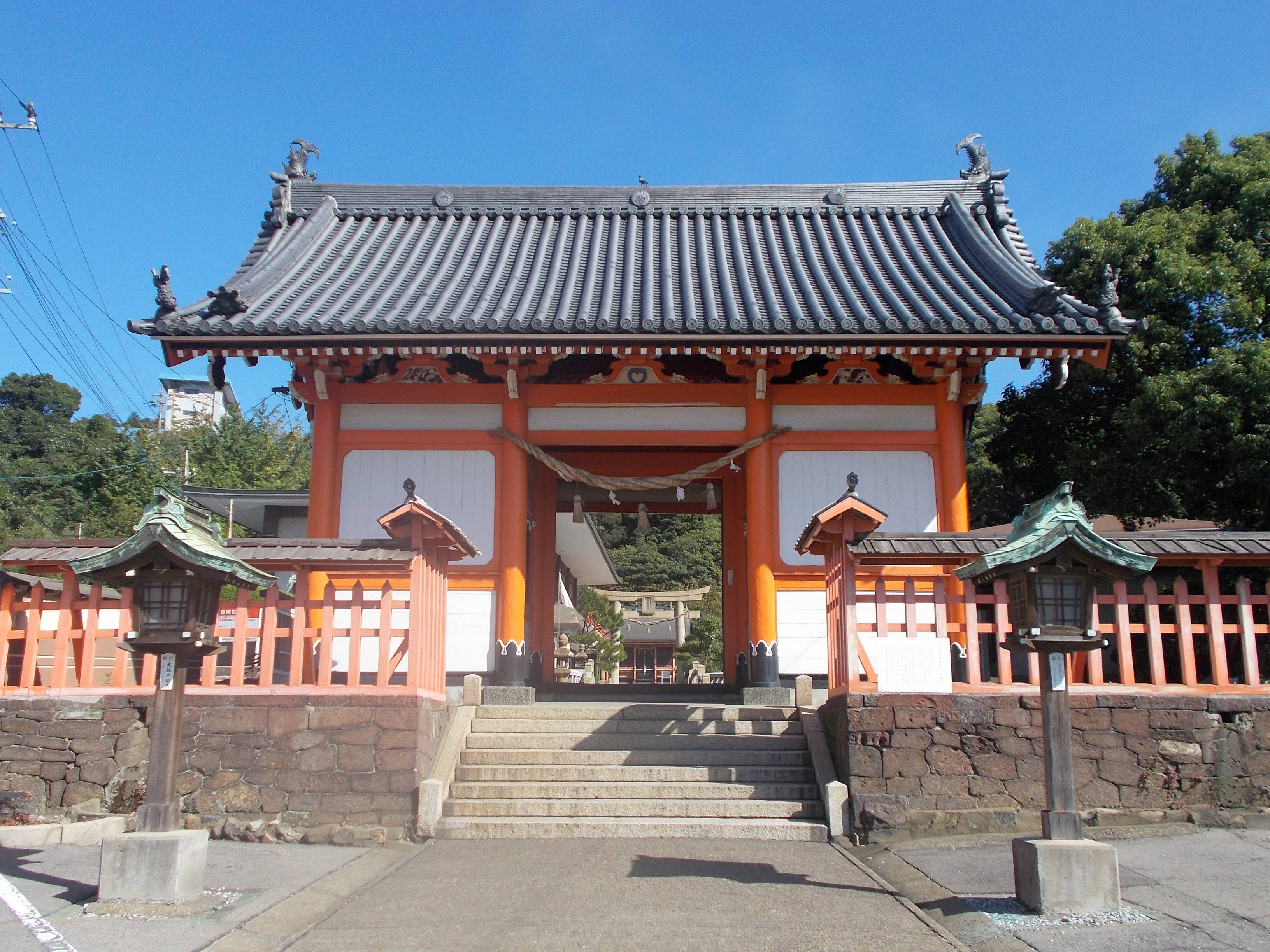 A Somon at Hayasuihime-jinja, Oita, Oita, Japan